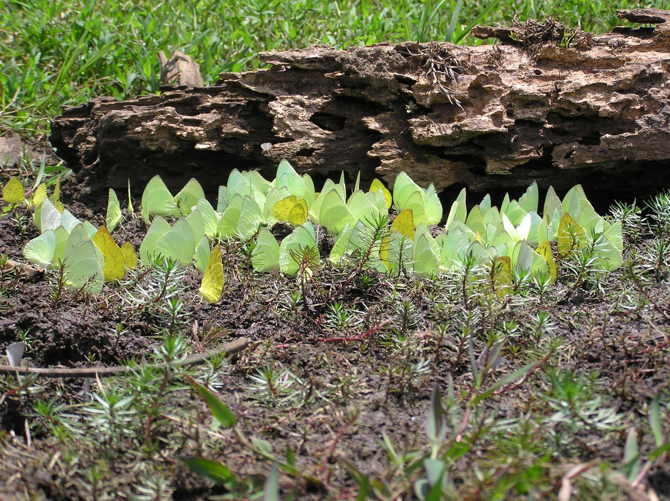 Emigrants (Catopsilia pomona) mud puddle in large groups with Grass yellows and other pierids. Their migration can be seen in South India.